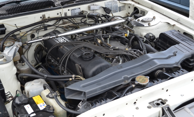 Nissan L20ET engine